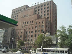 Private company offices in Faisalabad, Pakistan.